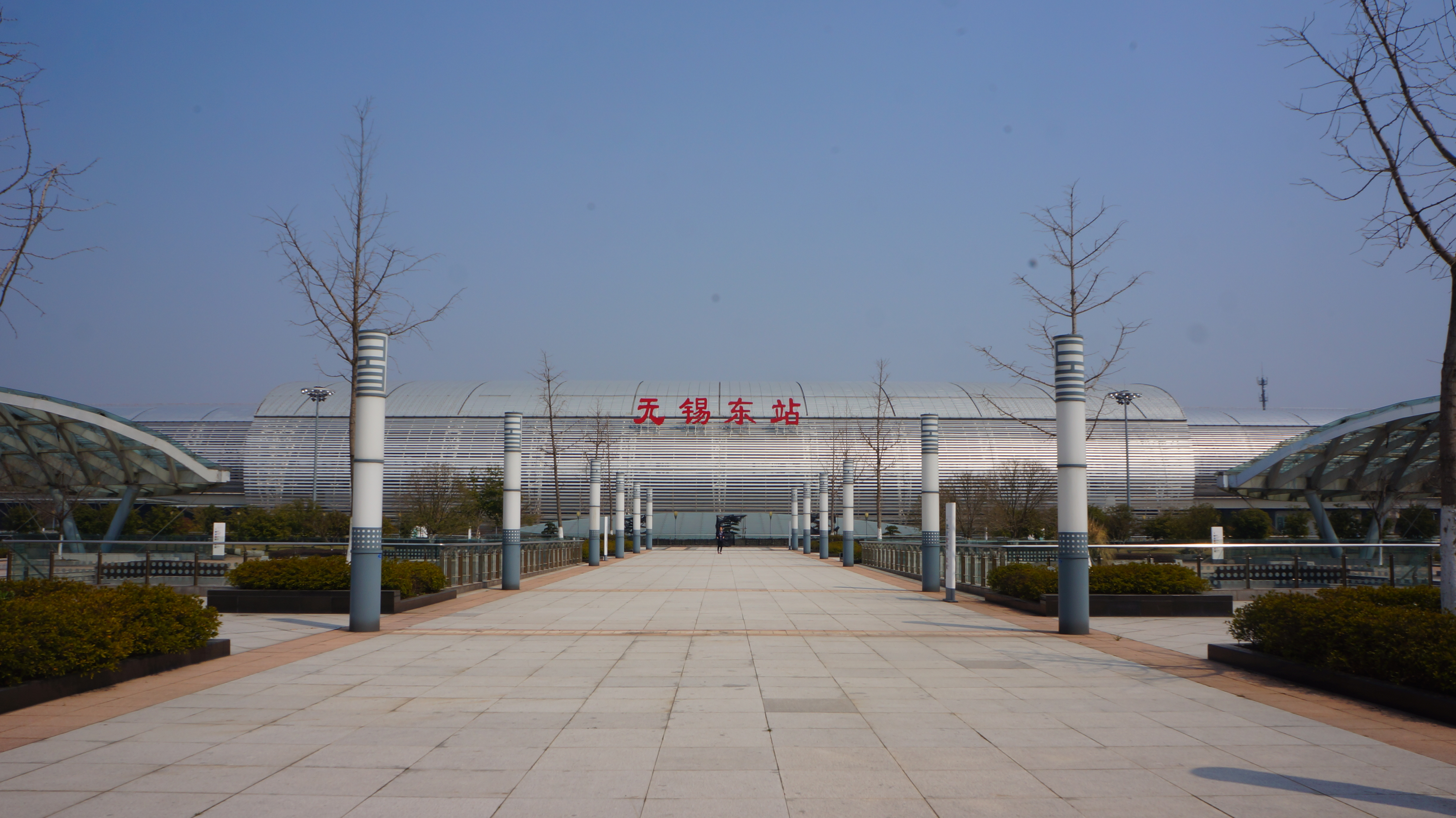 201603 Facade of Wuxidong Station